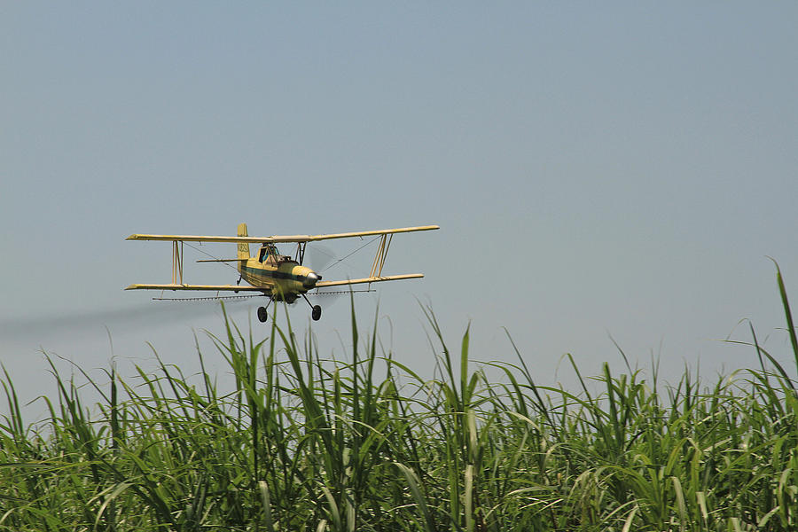 Avion furmigador